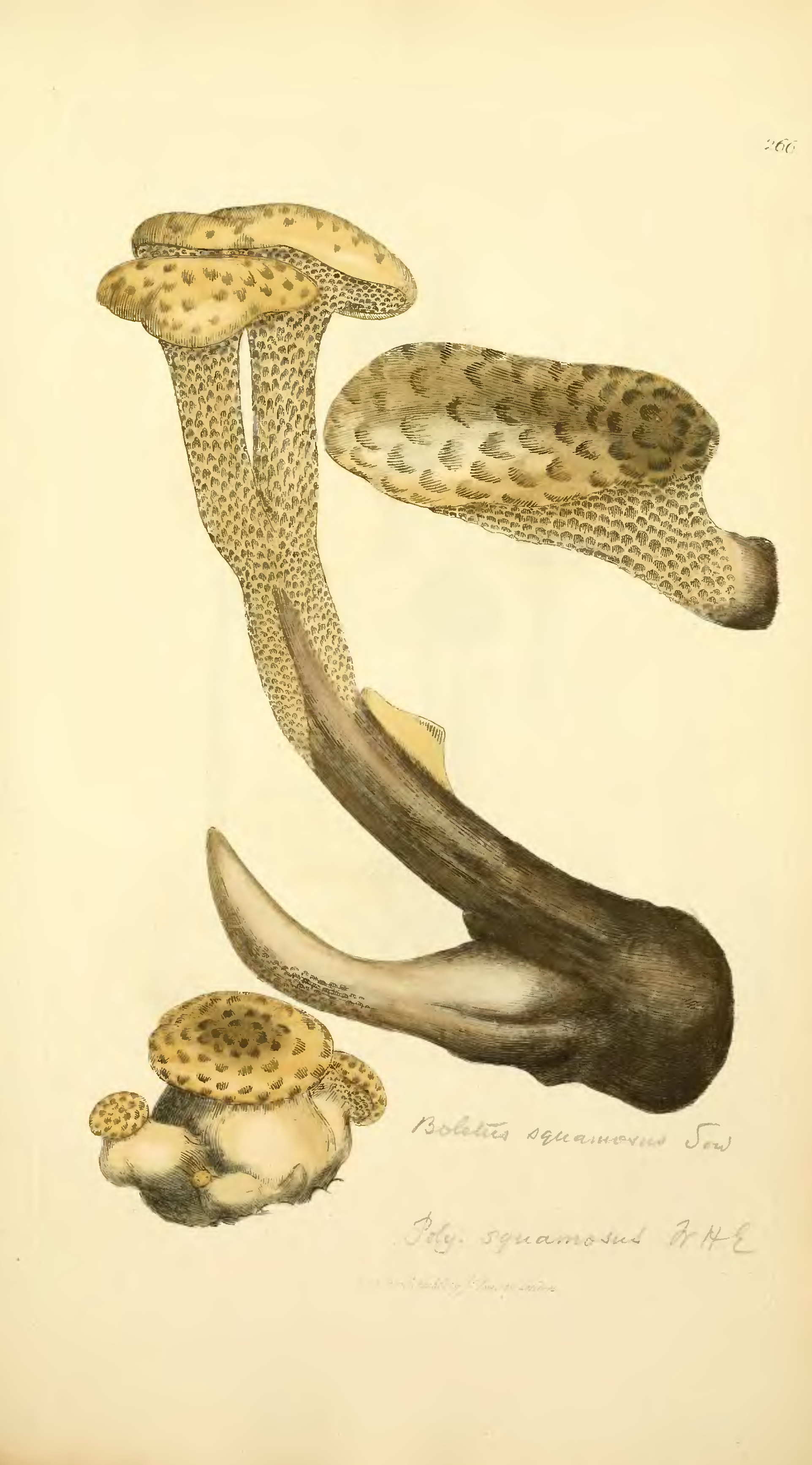 This is plate 266 from James Sowerby's Coloured Figures of English Fungi or Mushrooms. See below for more details.